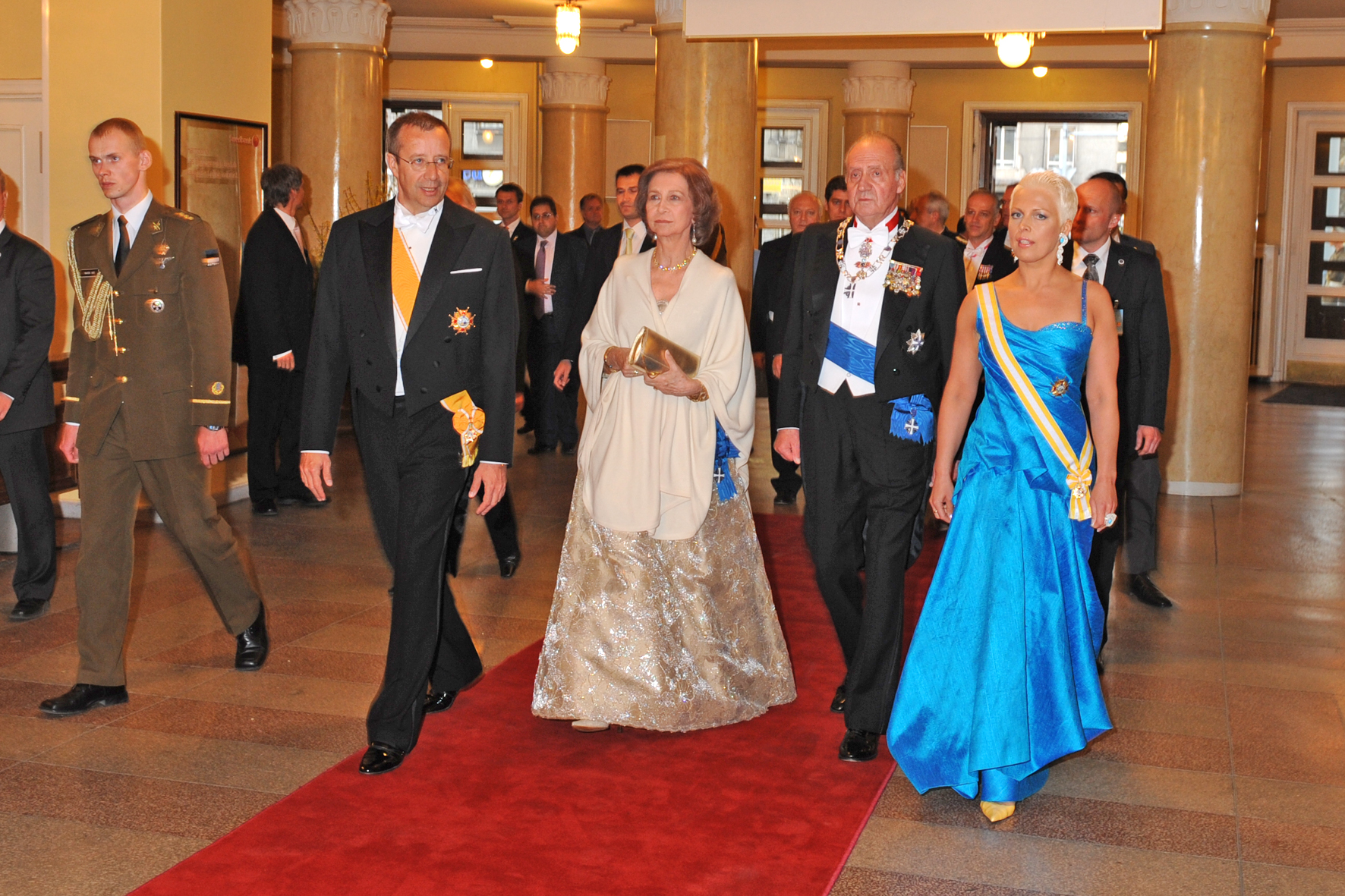 President of Estonia Toomas Hendrik Ilves, Spanish Queen Sofia, King Juan Carlos I, Estonian First Lady Evelin Ilves.